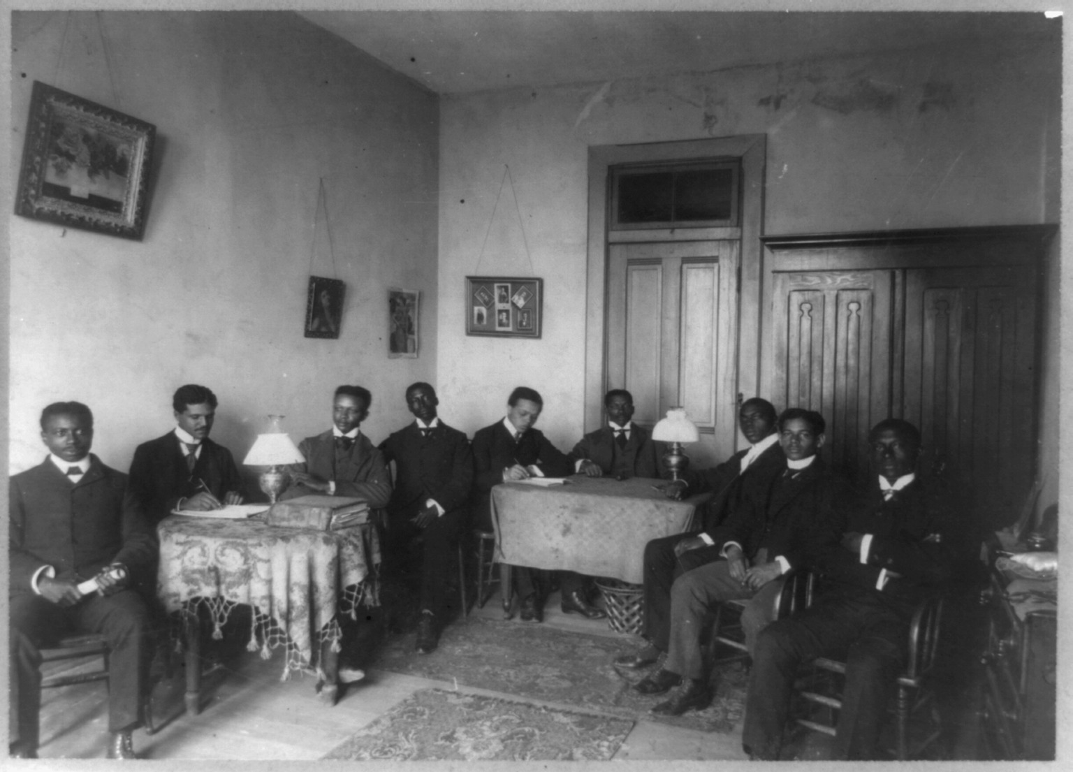 Title: Extempo club of Fisk University, Nashville, Tenn Abstract: Nine young black men posed, seated around two small tables. Physical description: 1 photographic print.